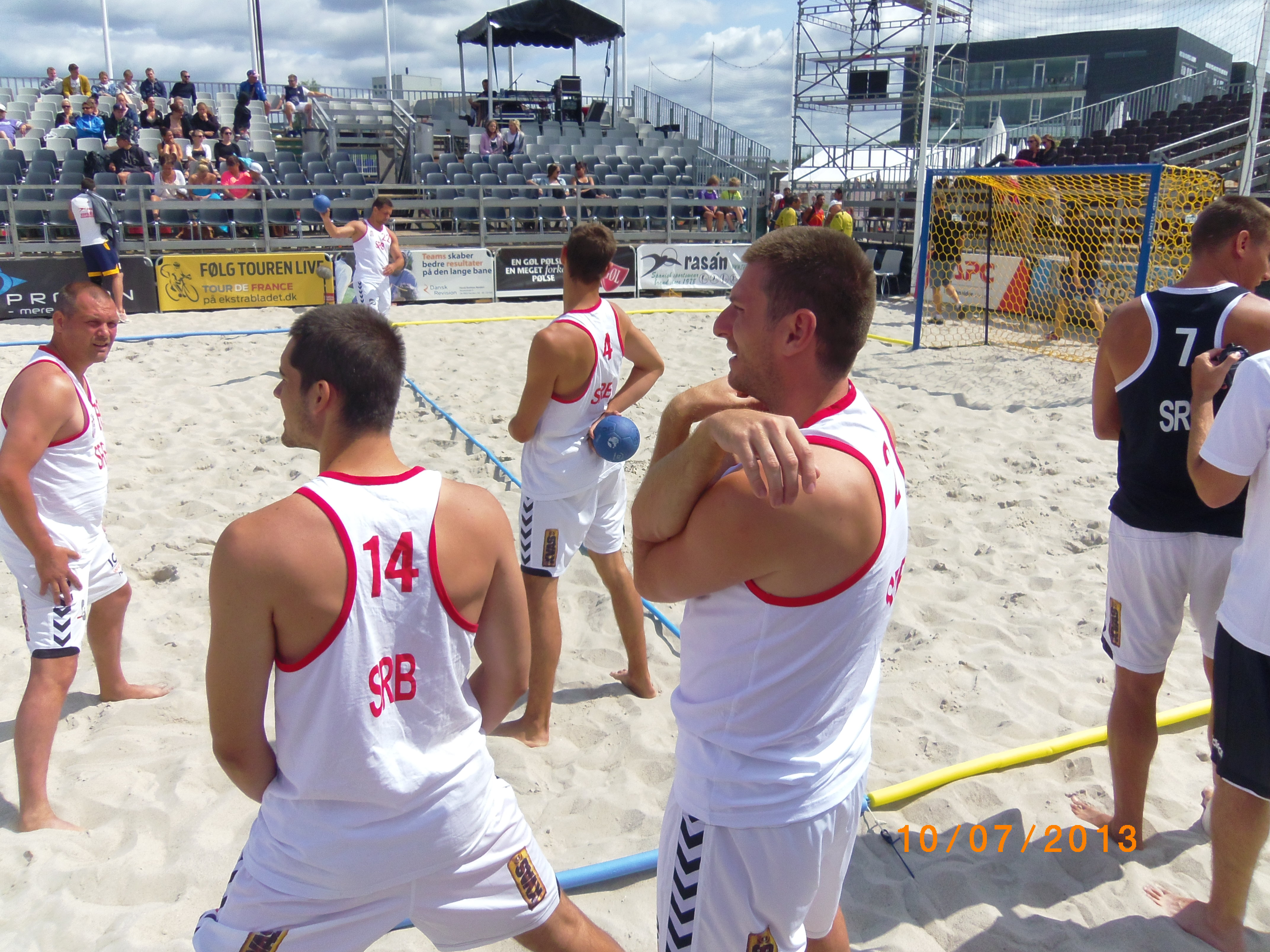 The Serbian team prepares for the match against Croatia. Randers, Denmark